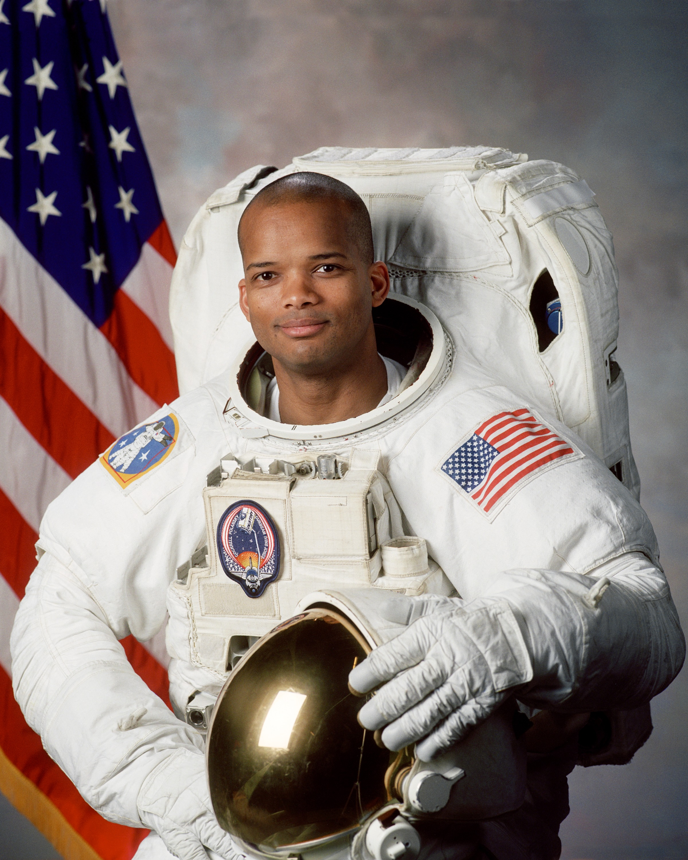 portrait astronaut Robert Curbeam